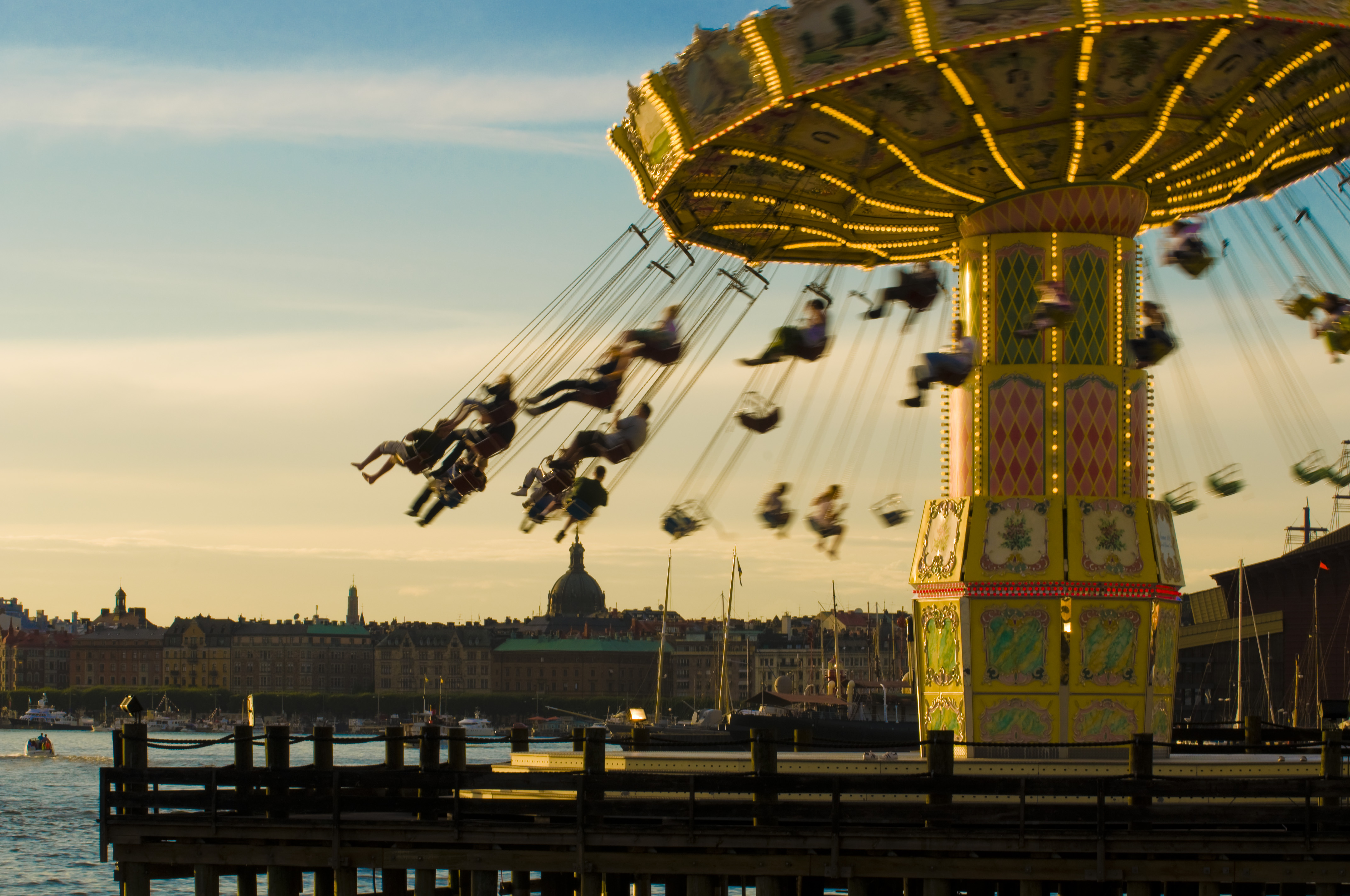 Swings at Gröna Lund, Stockholm